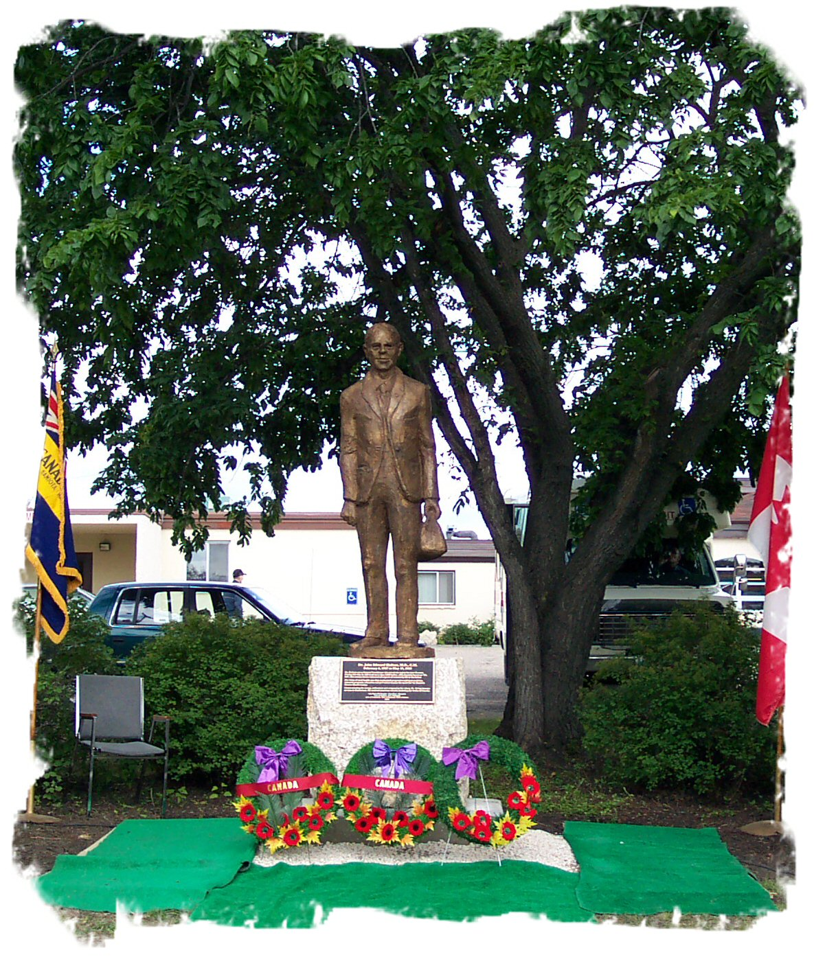 statue depicting Dr. John E. Hudson ("Dr. Ed": 1917–2003), a member of the Order of Canada in Hamiota, Manitoba